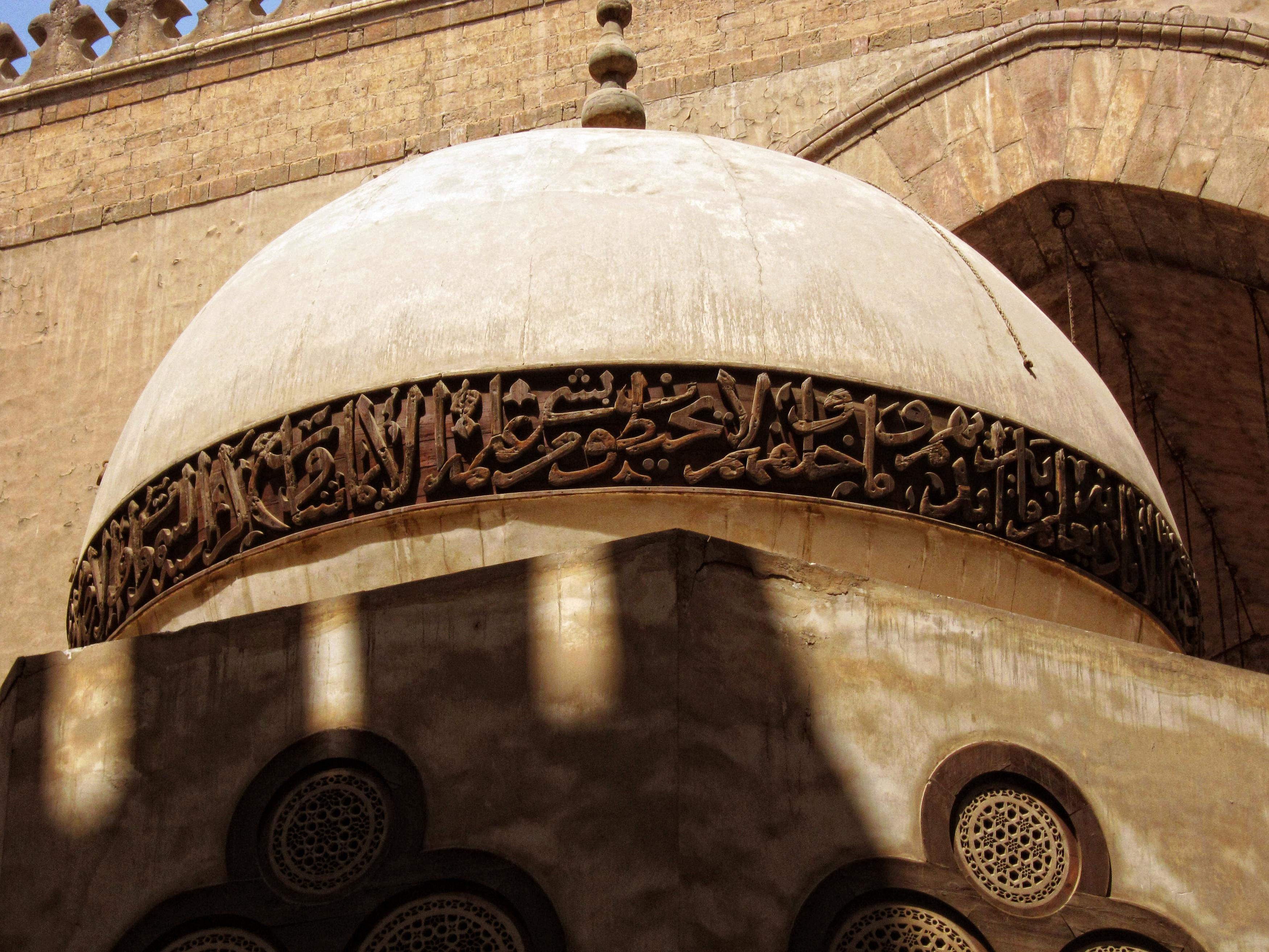 The Sultan Hassan Mosque is considered stylistically the most compact and unified of all Cairo monuments. It is one of the masterpieces of Mamluk architecture. The building was commissioned by Sultan Hassan bin Al-Nasir Muhammad bin Qalawun in 1356 AD as a mosque and religious school for all four juristic branches of Sunni Islam. It was designed so that each of the four schools of thought - Shafi, Maliki, Hanafi and Hanbali - has its own area while sharing the mosque.[1]. Construction started in 1356 AD and ended 7 years later in 1363 AD. Building materials used were harvested from the casing stones of the Giza Necropolis. One of the minarets collapsed during construction killing 300 people. The state was able to fund the massive structure through the properties that were left behind by the victims of the Black Death. The Sultan was assassinated before the mosque was completed and his body was never recovered. The magnificent burial chamber that was intended for him holds his two sons instead. The facade is 76 meters long and 36 meters high. The cornices, the entrance portal, the burial chamber, and the monumental staircase are particularly noteworthy. Verses from the Quran in elegant Kufic and Thuluth scripts adorn the inner walls. Source.